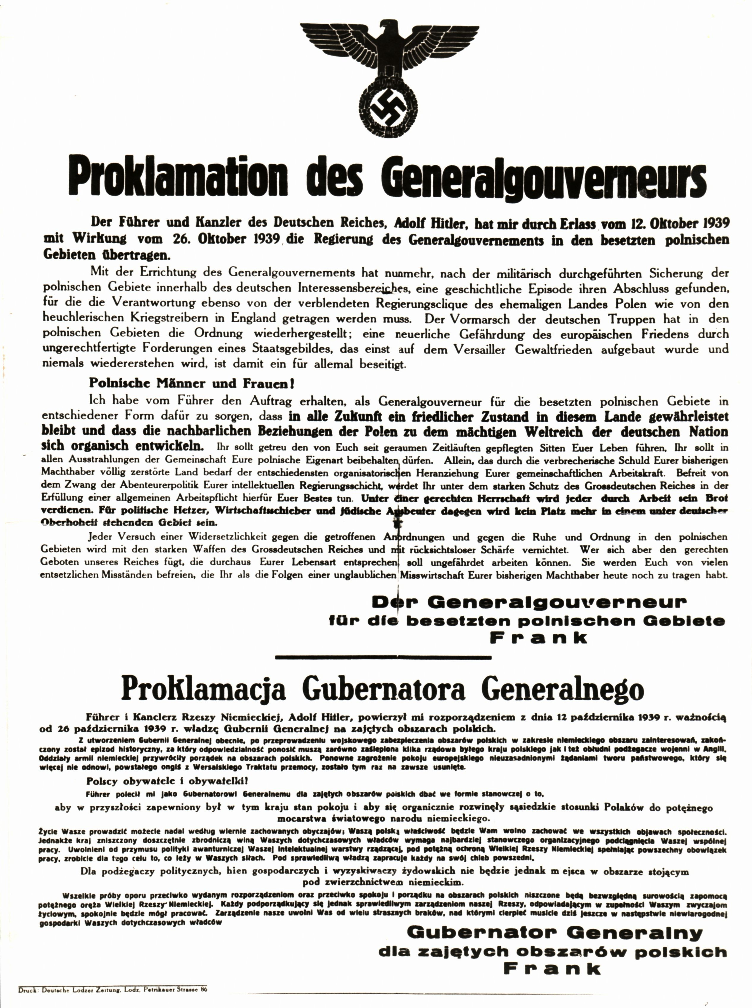 Bilingual German poster proclaiming the creation of General Government by Nazi-Germany from part of occupied Poland. Poland , October 1939. Below is text of the polish part of the poster.